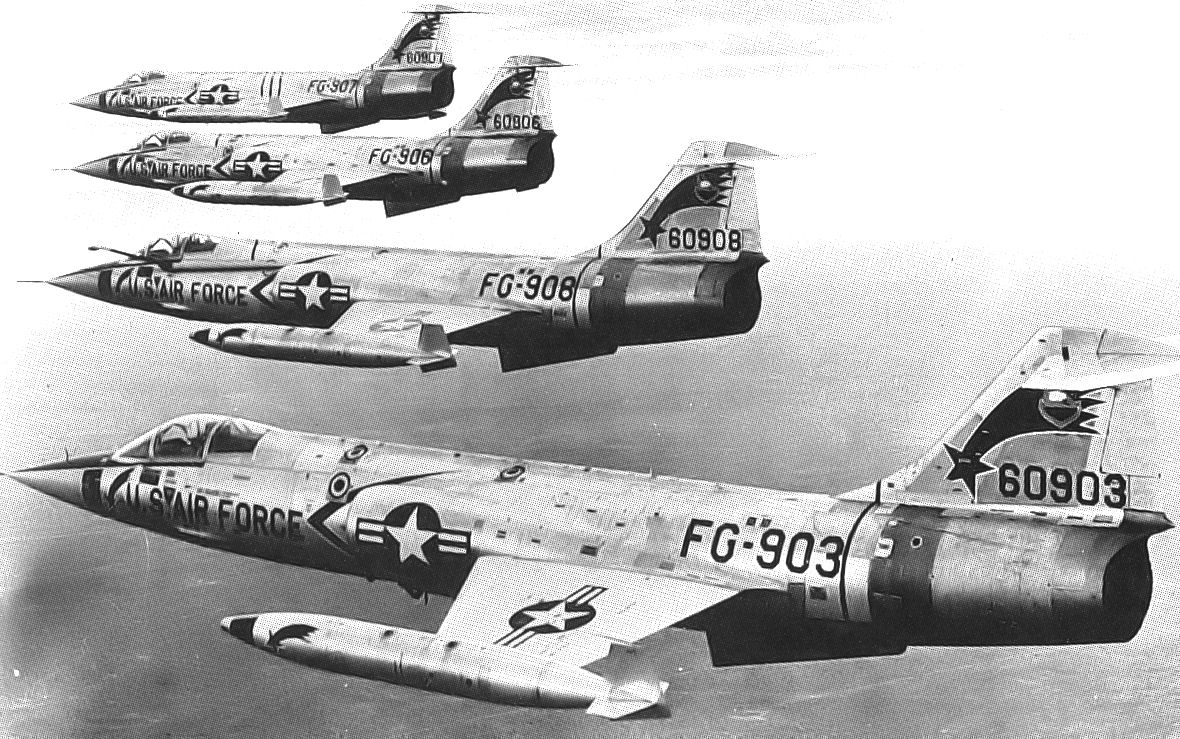 TAC 479th Tactical Fighter Wing - Lockheed F-104C-5-LO Starfighters 1960 George AFB, California Shown 56-902, 56-908, 56-906 and 56-907 908 (479th TFW, 476th TFS) damaged by small arms fire over Quang Tin Province S of DaNang AB Jul 22, 1965. Crashed